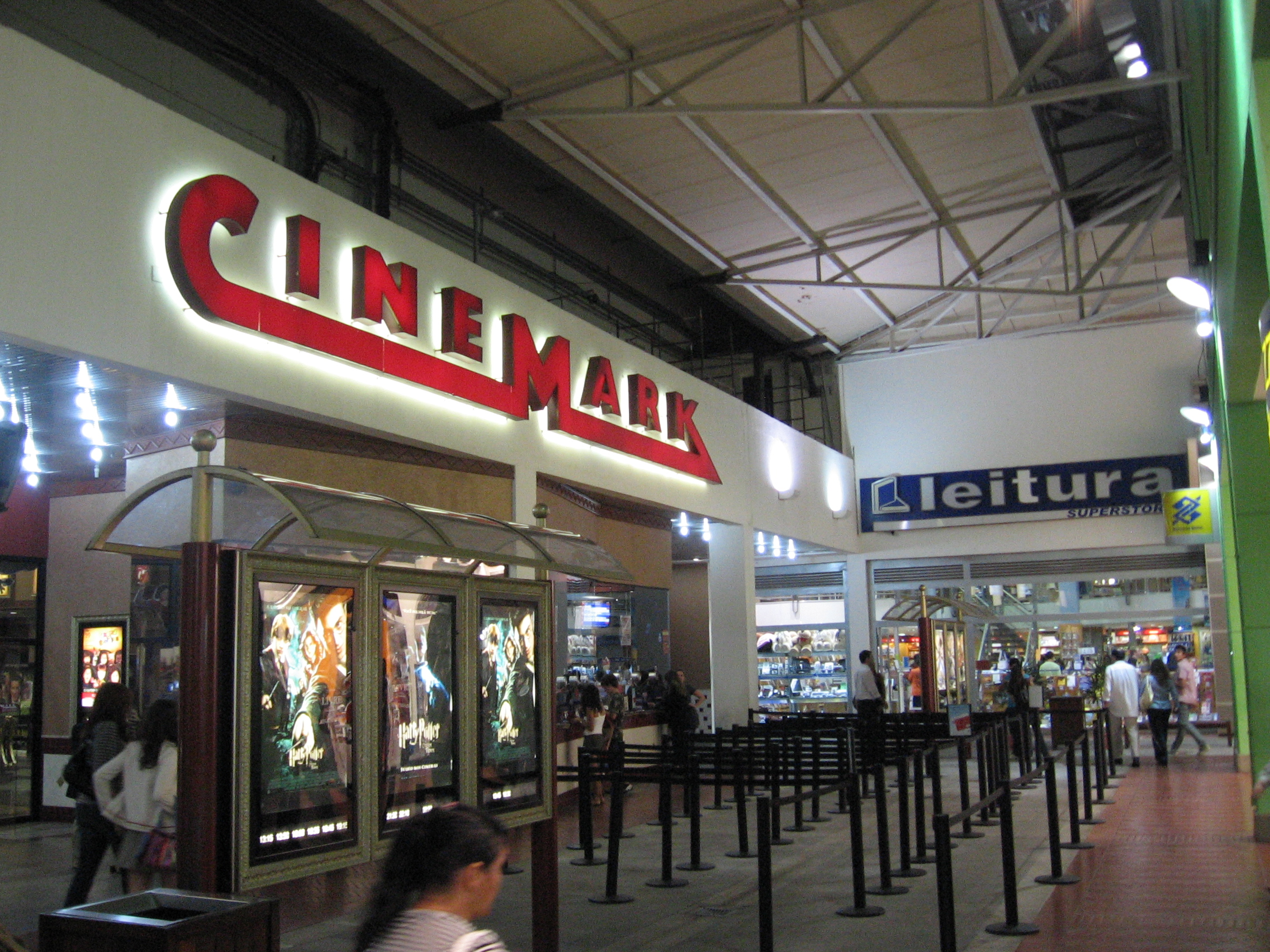 Pier 21, a Shopping Center in Brasília, Brazil